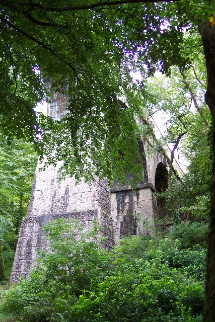 Treffrey's Viaduct, 650 feet long and 100 feet high, dominates the beautiful, lush Luxulyan valley. Built in 1842, it was the first all stone viaduct in Cornwall. Not only did it carry the rails of a tramway from Bugle to near St Blazey, but there was also an aqueduct beneath the tramway deck, part of a system of leats used to power machinery further down the valley. You can walk across the viaduct and see the water flowing underneath the stone decking. The tramway closed when the present Newquay railway (which runs under the viaduct) replaced it. For more information see the Wikipedia article Treffry Viaduct.